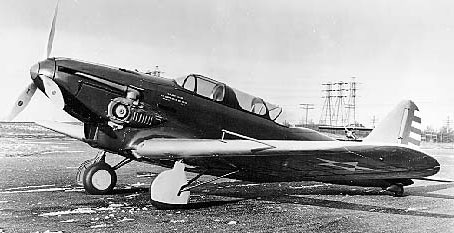 Consolidated Y1P-25 fighter with turbosupercharger visible